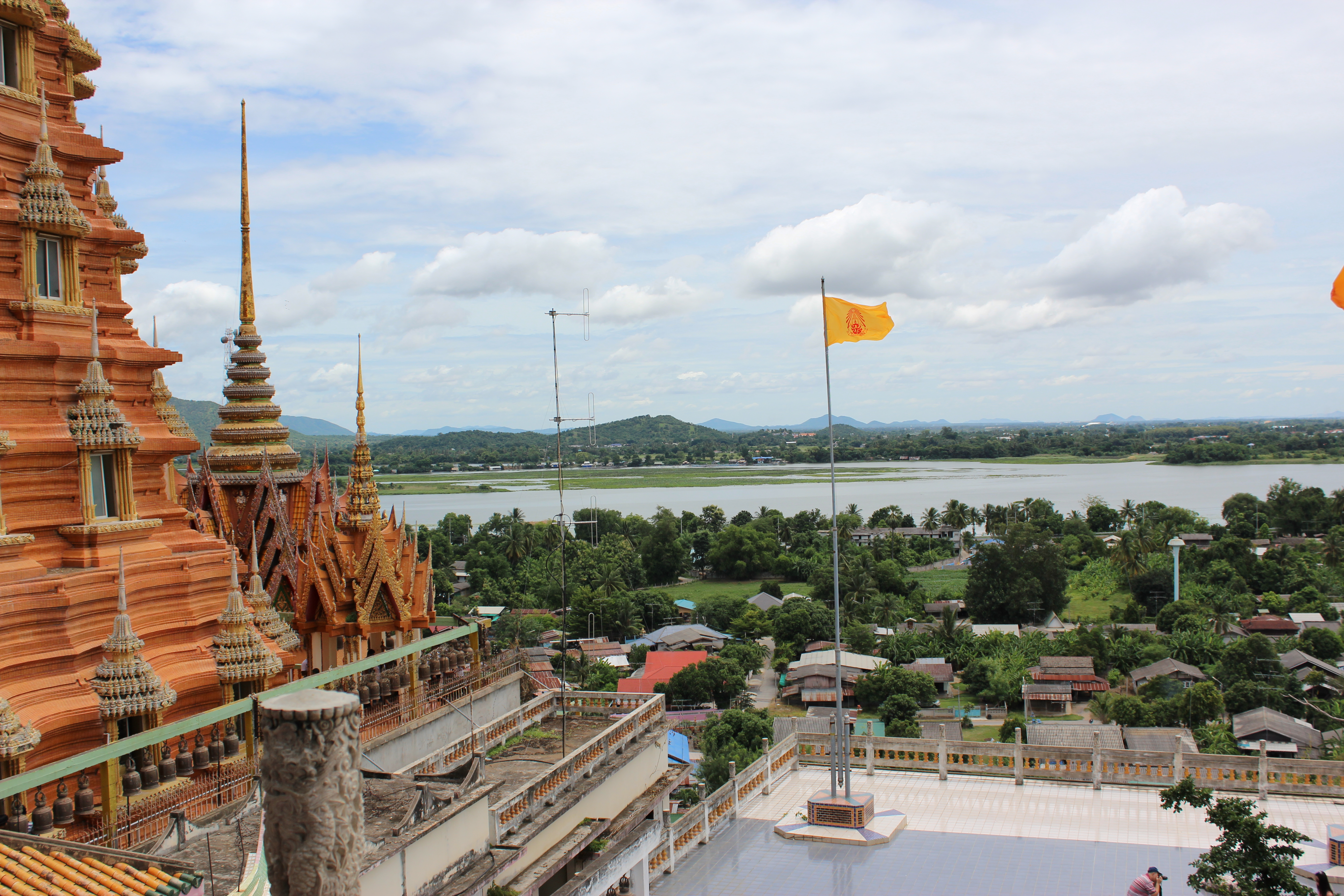 Bhuddist Chinese Temple(Wat Tam Soa)